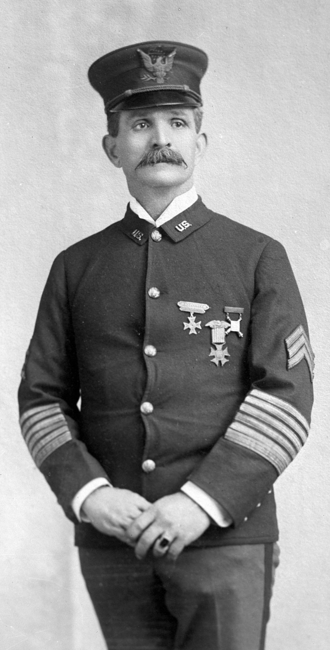 John Martin, trumpeter for Seventh Cavalry, in uniform.